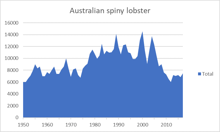 Heildar veiði Ástralska svipuhumarsins